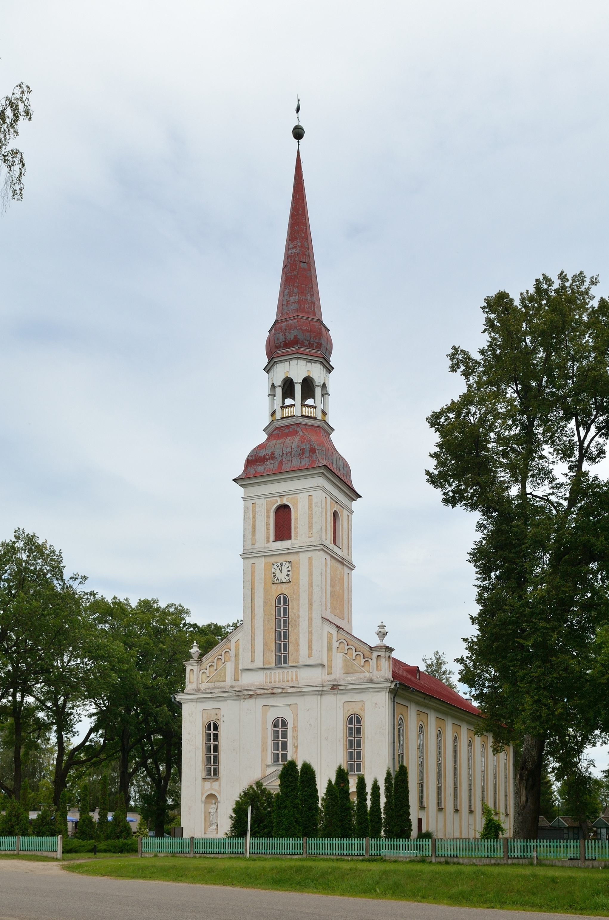 Räpina church